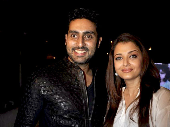 Photo Of Abhishek Bachchan,Aishwarya Rai From The Launch of Dabboo Ratnani's Calendar 2011